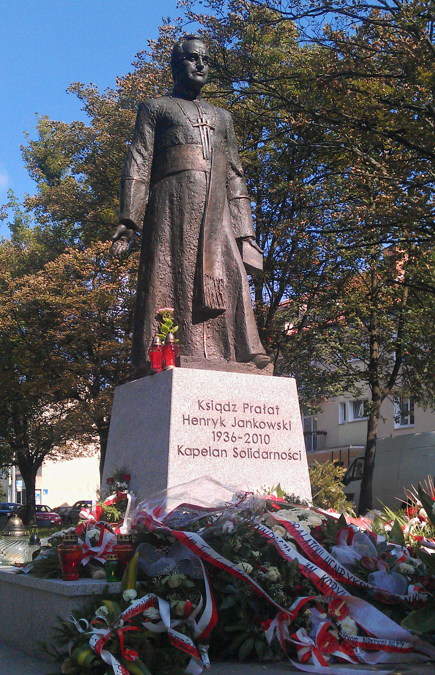 Monument of Henryk Jankowski Gdansk, sculptored by Gennadij Jerszow unveiled in 2012